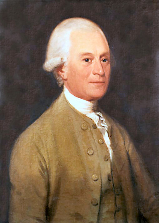 Portrait of James I Templer (1722–1782) of Stover House, Teigngrace, Devon, was a self-made magnate who made his fortune building dockyards. Location unknown, published by website